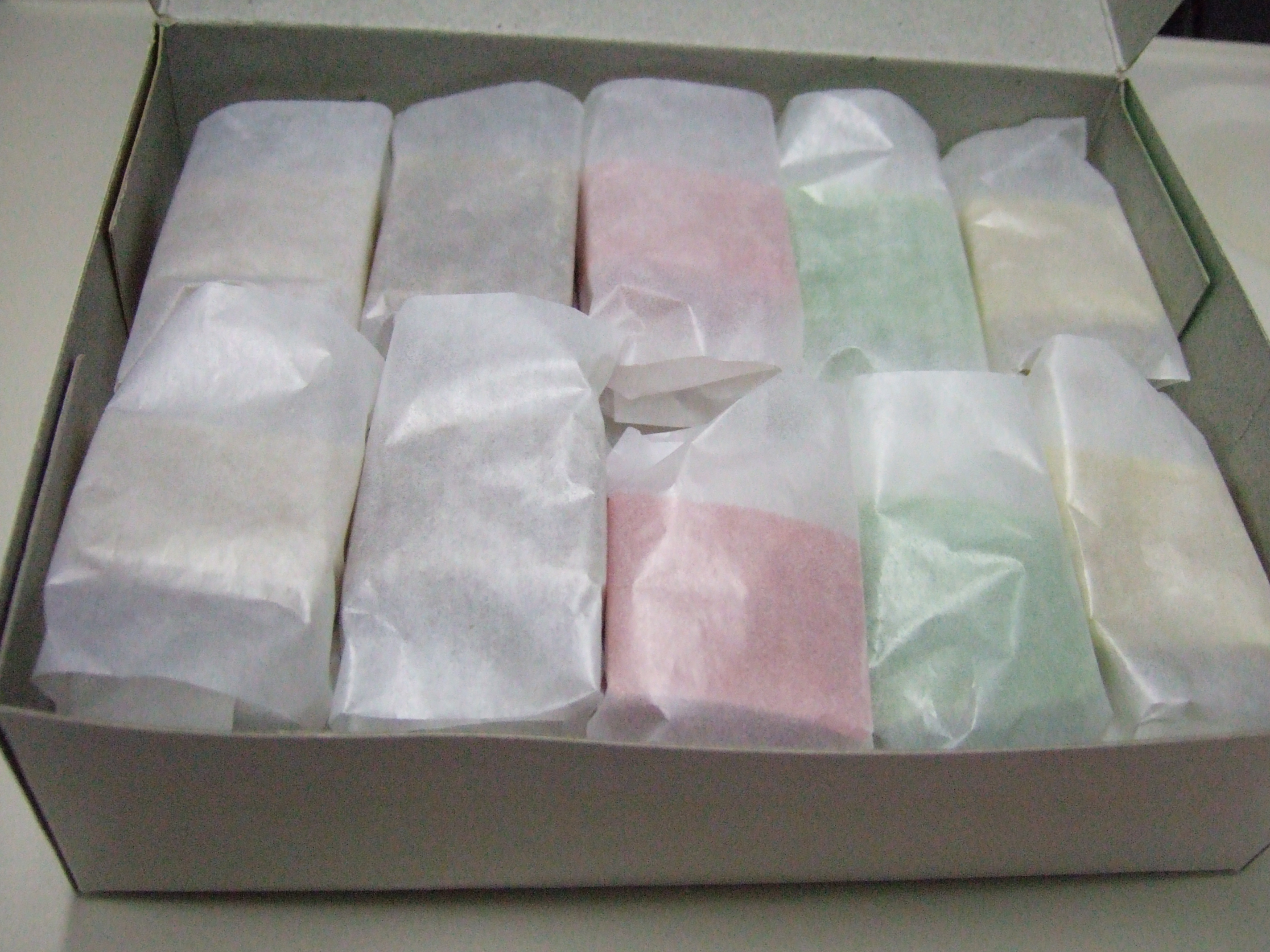 Yangko, glutinuous rice cake from Yogyakarta, Indonesia